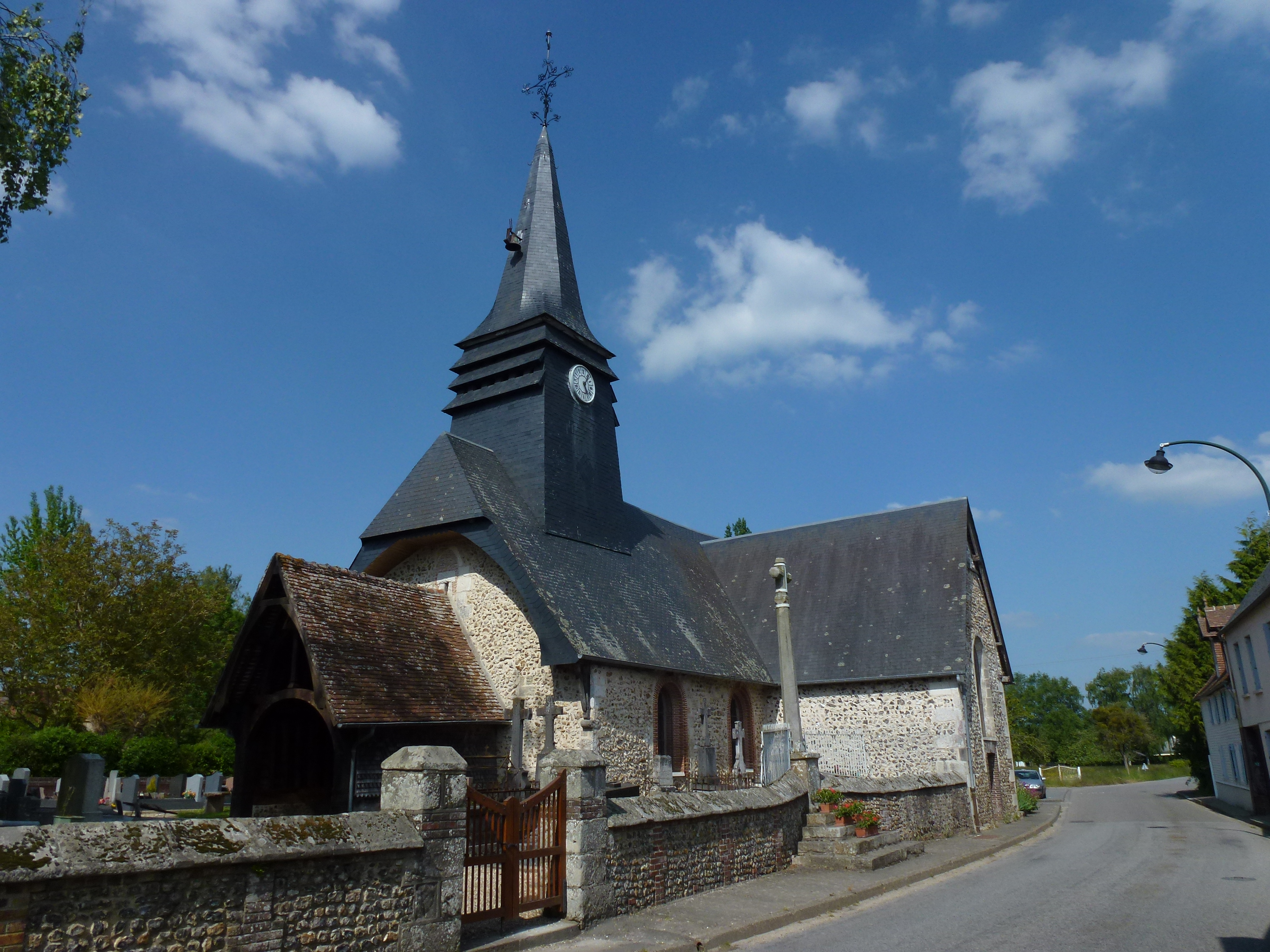 Saint-Vincent-du-Boulay (Eure, Fr) église Saint-Vincent